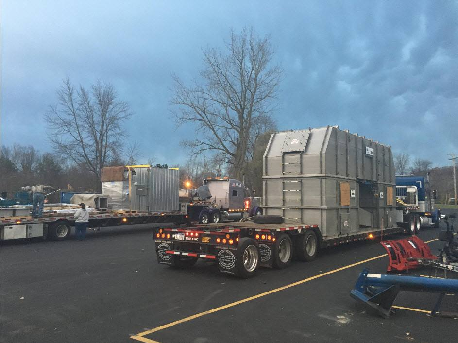 Thermal oxidizer shipping